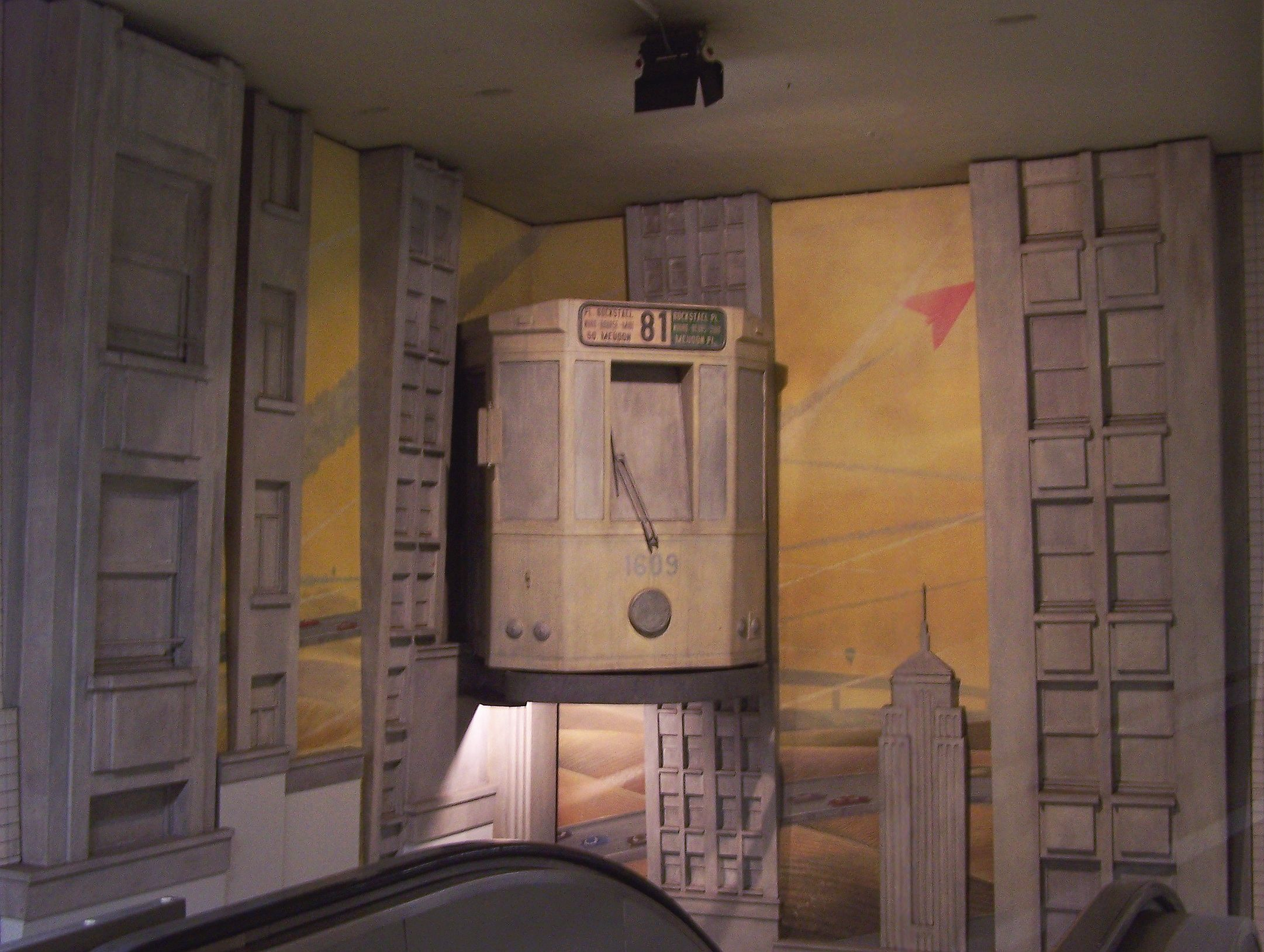 Artwork in Brussels subway stations: Artist: François Schuiten Title: Le Passage inconnu Found: Hallepoort